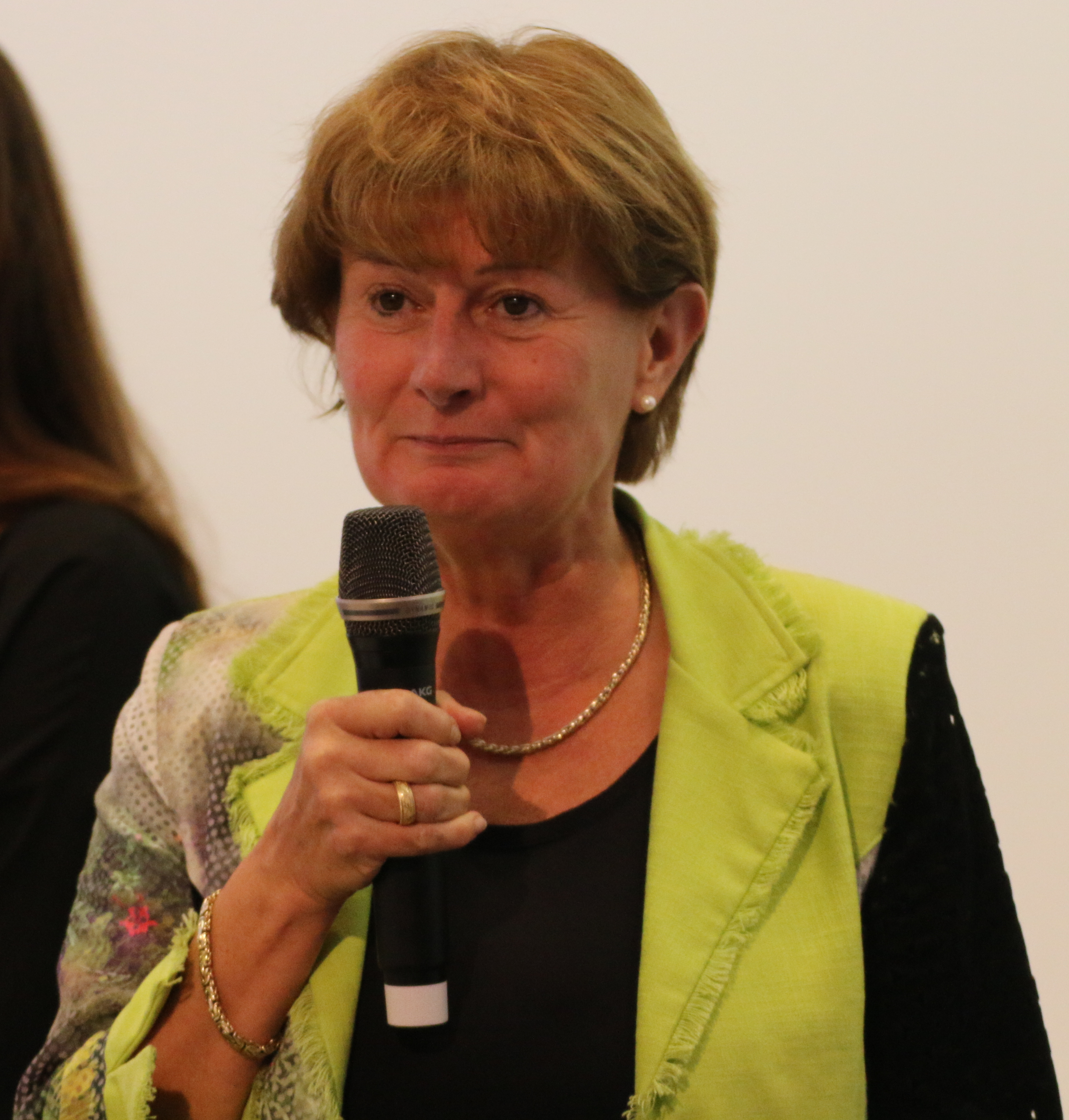 Daniela Birkenfeld at Museum Angewandte Kunst.